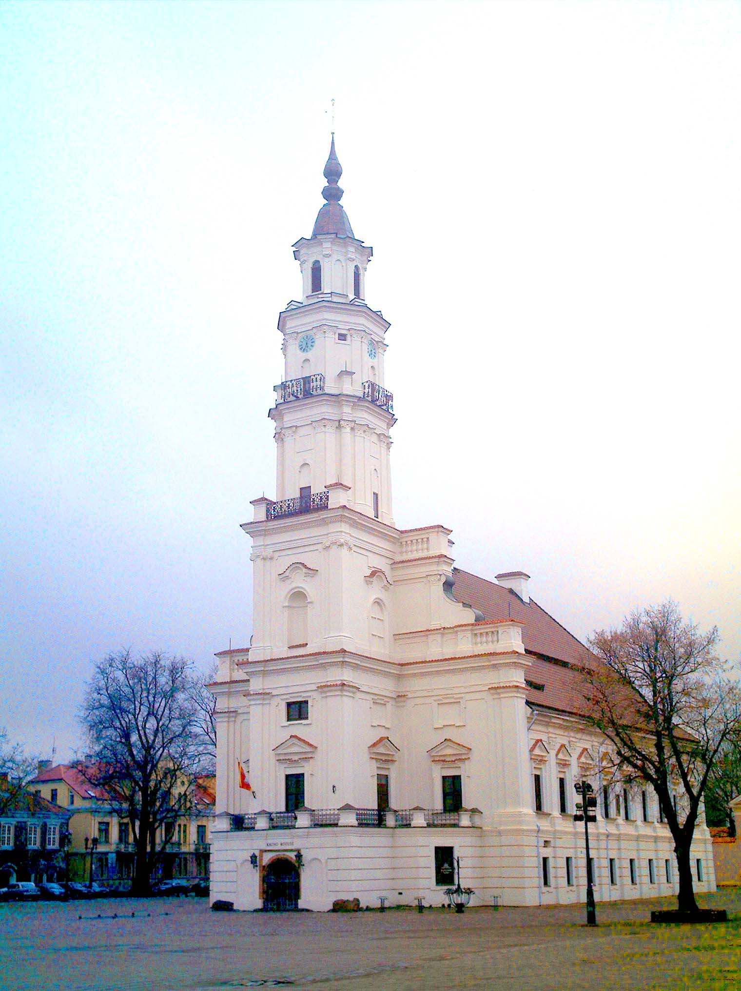 Rathaus/Town Hall von/of Kaunas